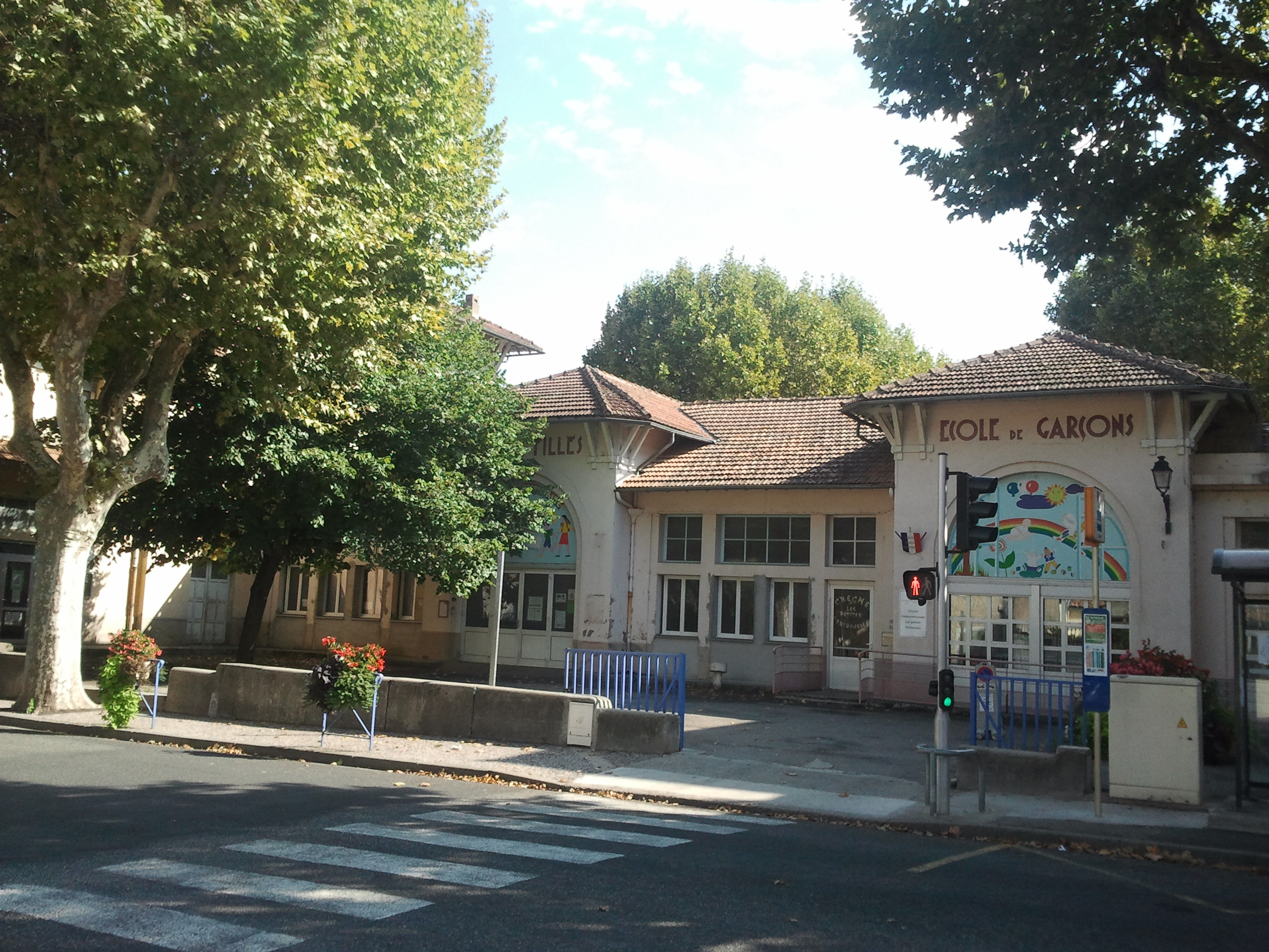 The school in Espéraza